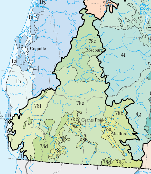 Level IV ecoregions in the Klamath Mountains ecoregion (not showing California portion of range—ecoregion), as defined by the EPA. This map is a draft and may now be slightly outdated. For more information about these ecoregions, see [1]